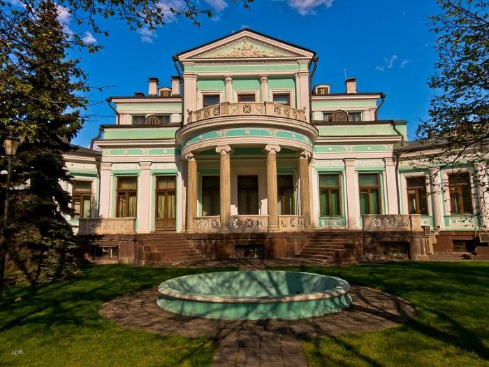 Mikhail Morozov Palace, Smolensky Boulevard, 26\9, Moscow.